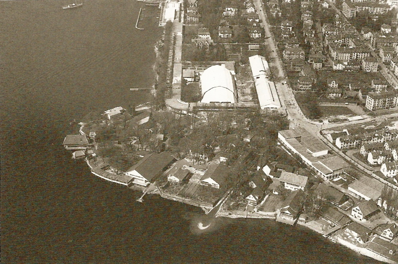 Landidörfli respectively Zürichhorn in Zürich-Seefeld (Switzerland), aerial photography by Walter Mittelholzer (1894–1937)